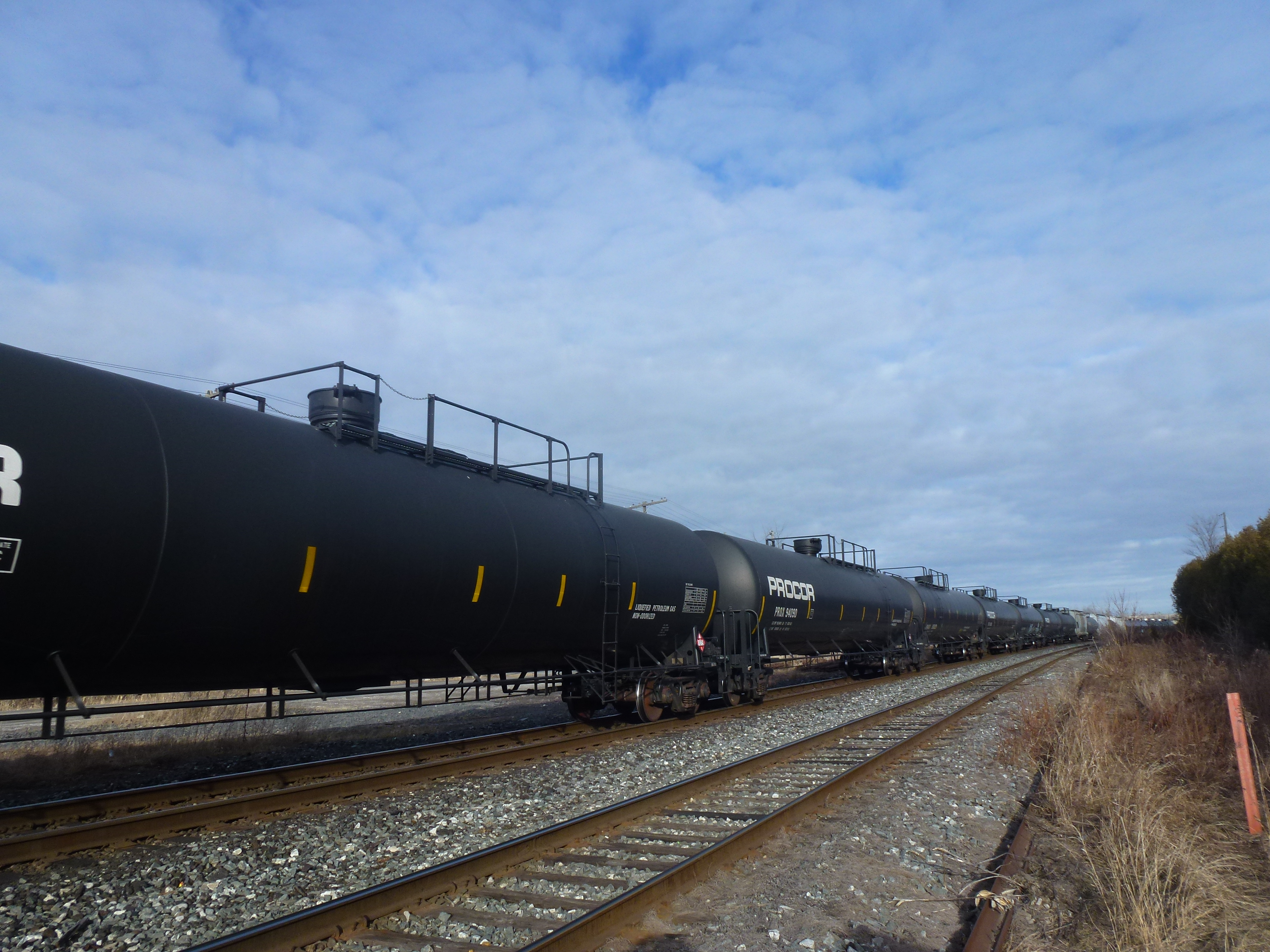 A string of Procor tank cars in a long Canadian Pacific manifest train passing through Bolton ON on 5 March 2018. These ones are designated for carrying liquefied petroleum gas, "non-odorized" (these words can be seen on the nearest car to the camera at full size).